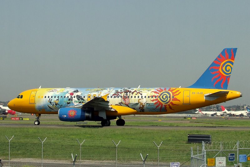 One of Freedom Air's Airbus A320s, seen here at Sydney International Airport, was decorated in a special colour scheme to promote Warner Bros. Movie World. Digital image of ZK-OJO taken by YSSYguy on 12 January 2007 and uploaded for use in the Freedom Air (New Zealand) article. Image edited with Picasa software. YSSYguy (talk) 07:54, 13 June 2010 (UTC)